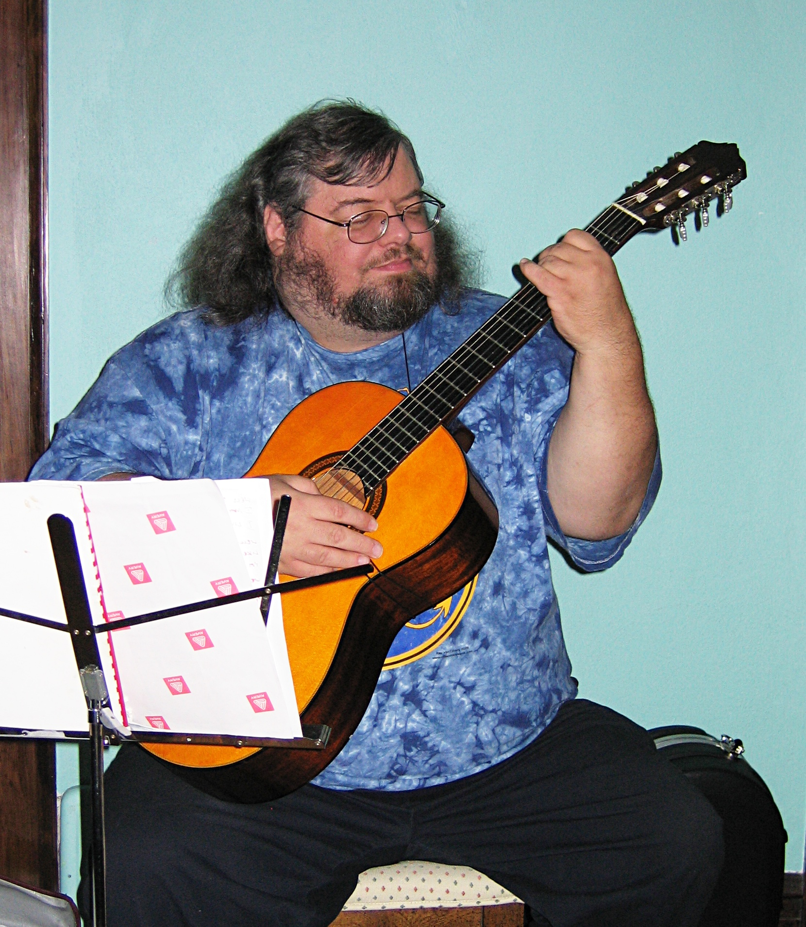 Filk musician Tom Smith